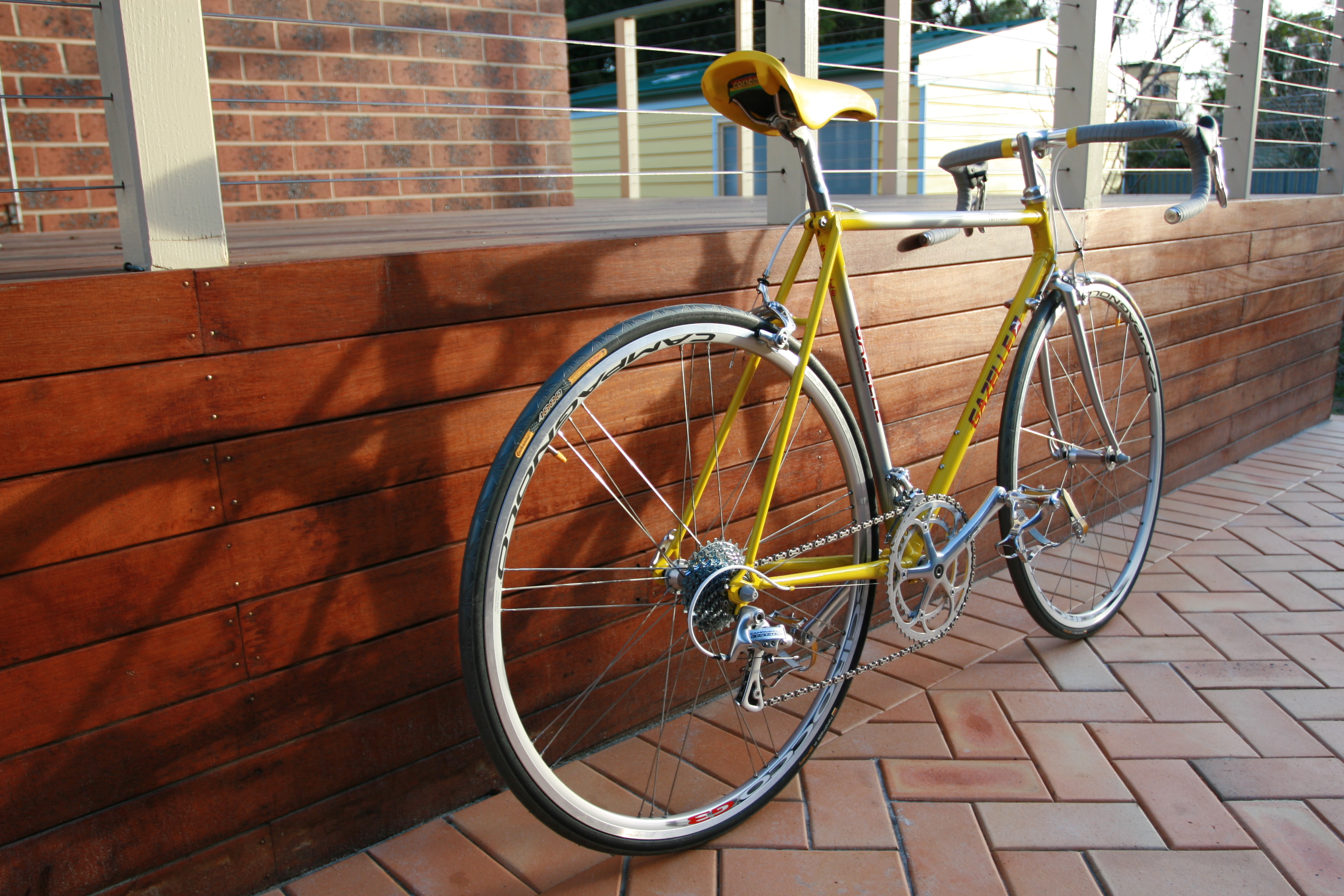 Fast Food Gazelle